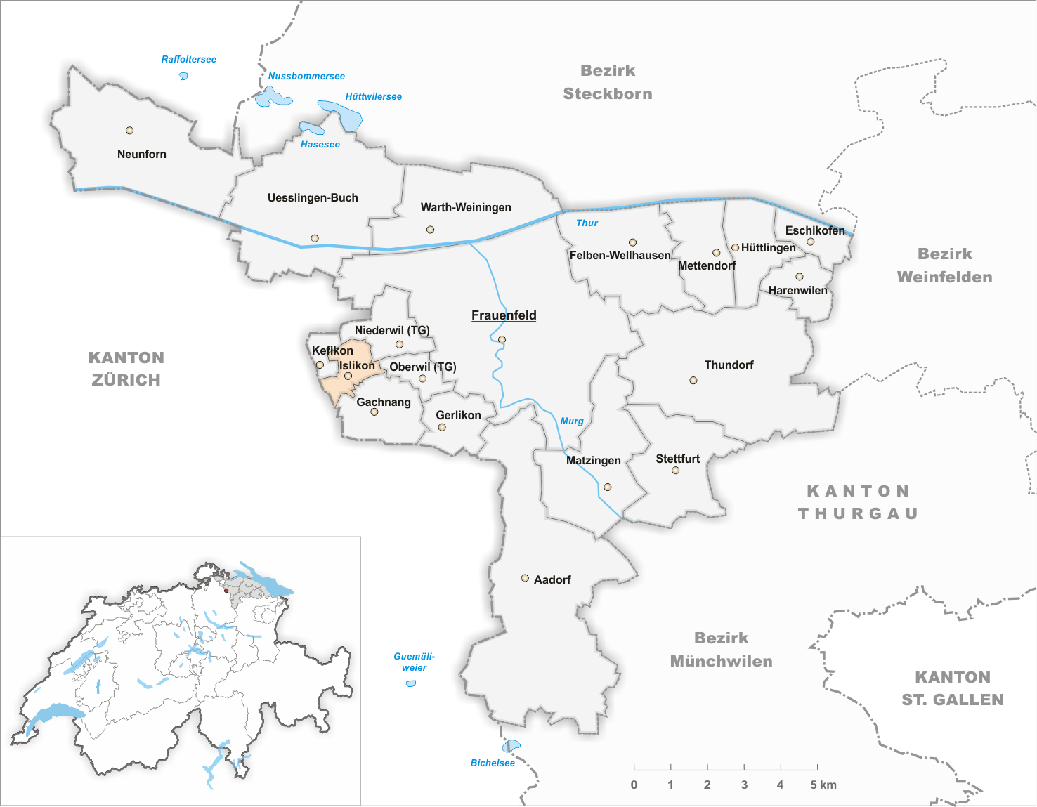 Municipality Islikon